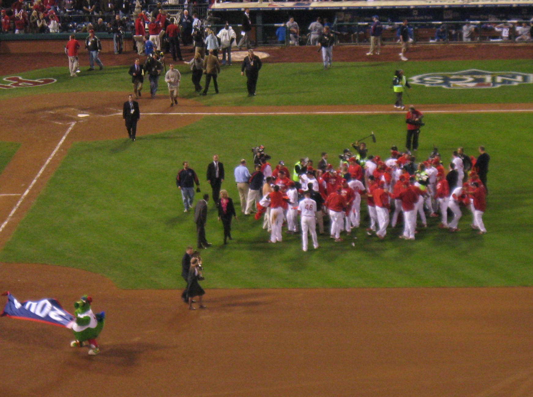 2009 National League Championship Series Game 5